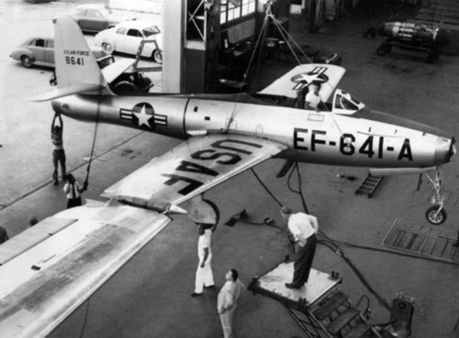 A U.S. Air Force Republic EF-84D-1-RE Thunderjet (s/n 48-641) converted for use in Project Tom-Tom in wingtip hookup with a Boeing B-29 shown here in a hangar, giving a close up view of the wing-tip coupling mechanism. This aircraft coupled with the B-29 on 24 April 1953. After the automatic system was activated it rolled onto the wing of the B-29, and the connected aircraft both crashed with loss of all onboard personnel.